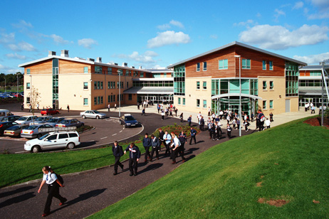 View of Beath High School